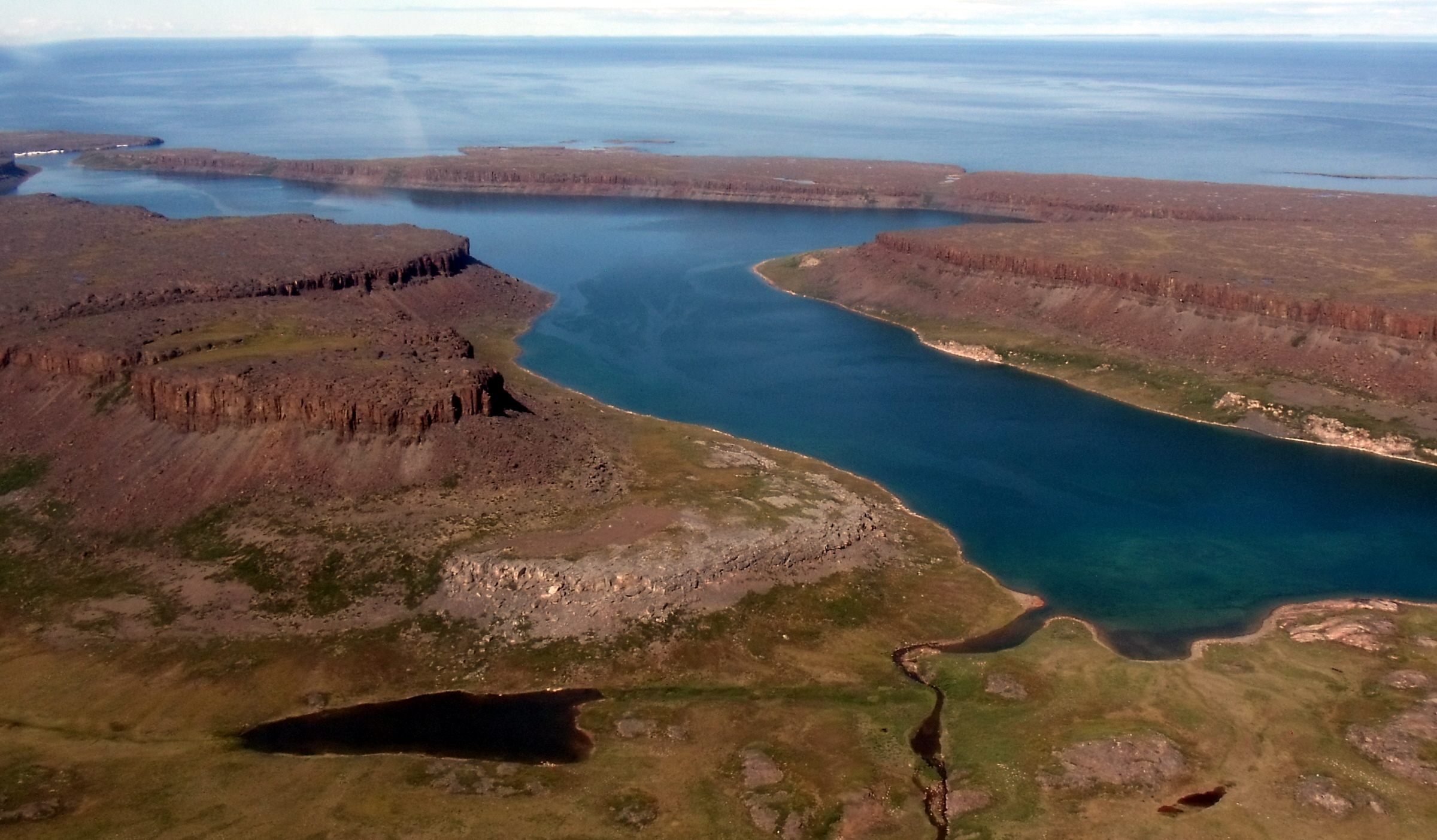 A Coronation Sill "sliding" into the Arctic Ocean. This bay of rampants to the east of Kugluktuk is just one of dozens of parallel sills slicing through Nunavut's western mainland, each and every one with the same shallow dip to the north. They form a series of ramparts on land and many linear sets of islands out in the ocean. These distinctive intrusives in the form of sills are the result of a large-scale igneous event 723 million years ago. The rocks they cut through are anywhere from a half billion to one billion years older. Which means older rocks on both sides (above and below) were separated by the sill. Relentless erosion with a final polish by recent continental glaciation has uncapped and dessicted this one. Handheld from inside a speeding helicopter.